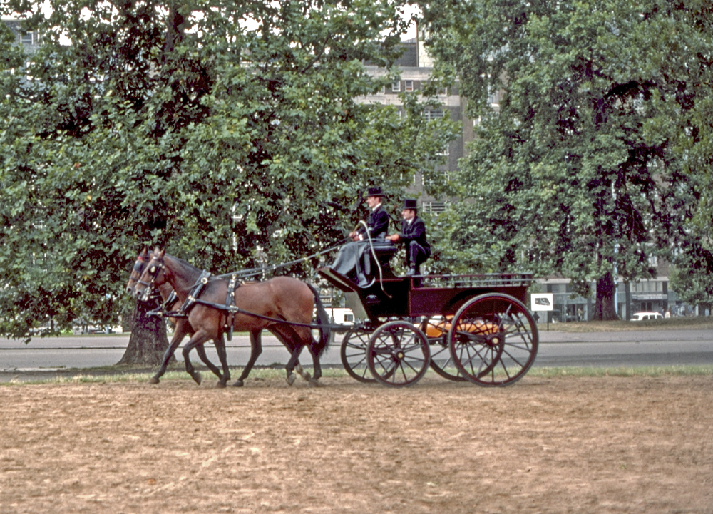 Team carriage/wagon driving lessons at Hyde Park Corner. (Scanned from 35mm Kodachrome 64 slide)